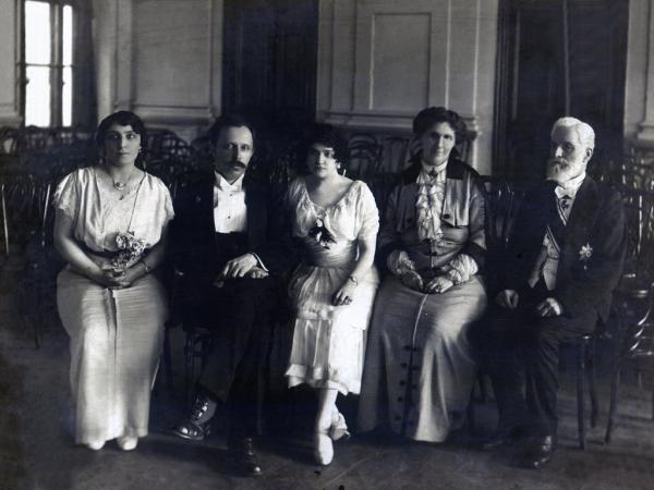 The first issue of Odessa conservatory (from right to left): conservatory's trustee Vassily Orlov, voice teacher professor Yulia Reider, unknown student, director of the conservatory Witold Maliszewski, vocal student Anastassia Atmanaki